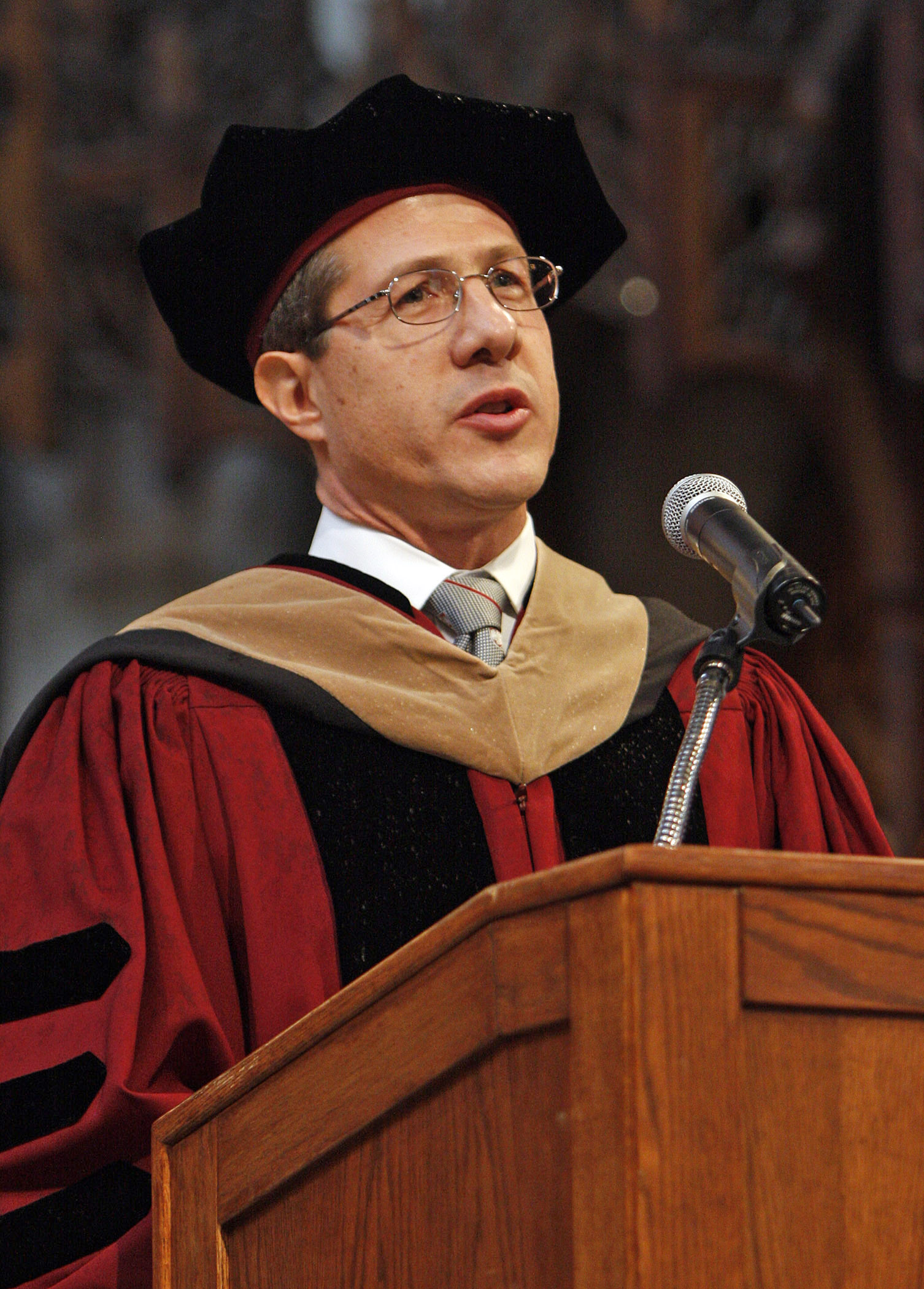 Chairman of the Board of Trustees Andrew Alper offers remarks at the University's 500th Convocation Ceremony on Saturday.